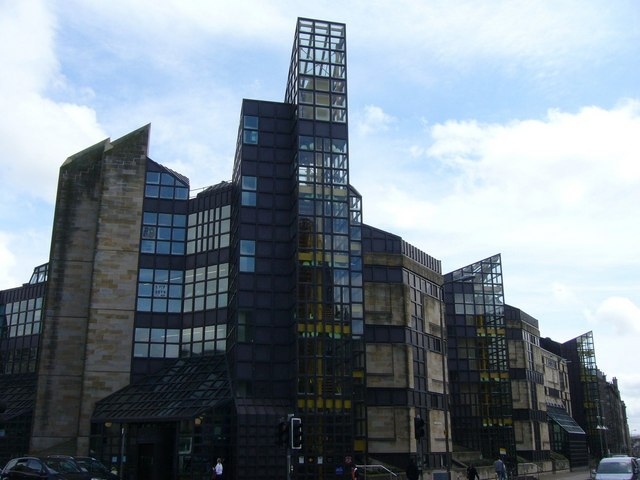 National Library of Scotland, Causewayside An extension of the National Library of Scotland, opened in 1989.